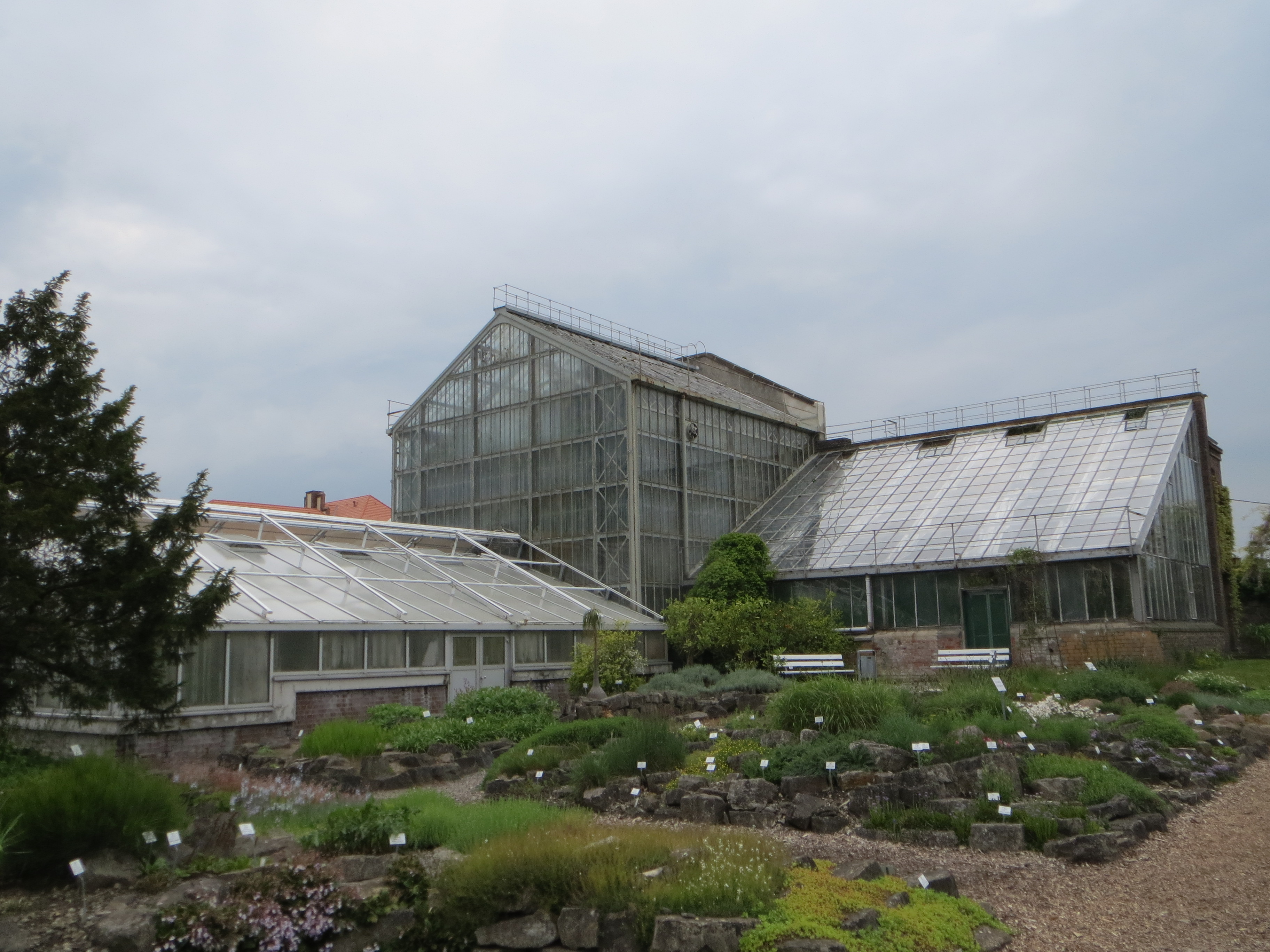 University Botanical gardens greenhouses built in 1887, awaiting restoration in 2014